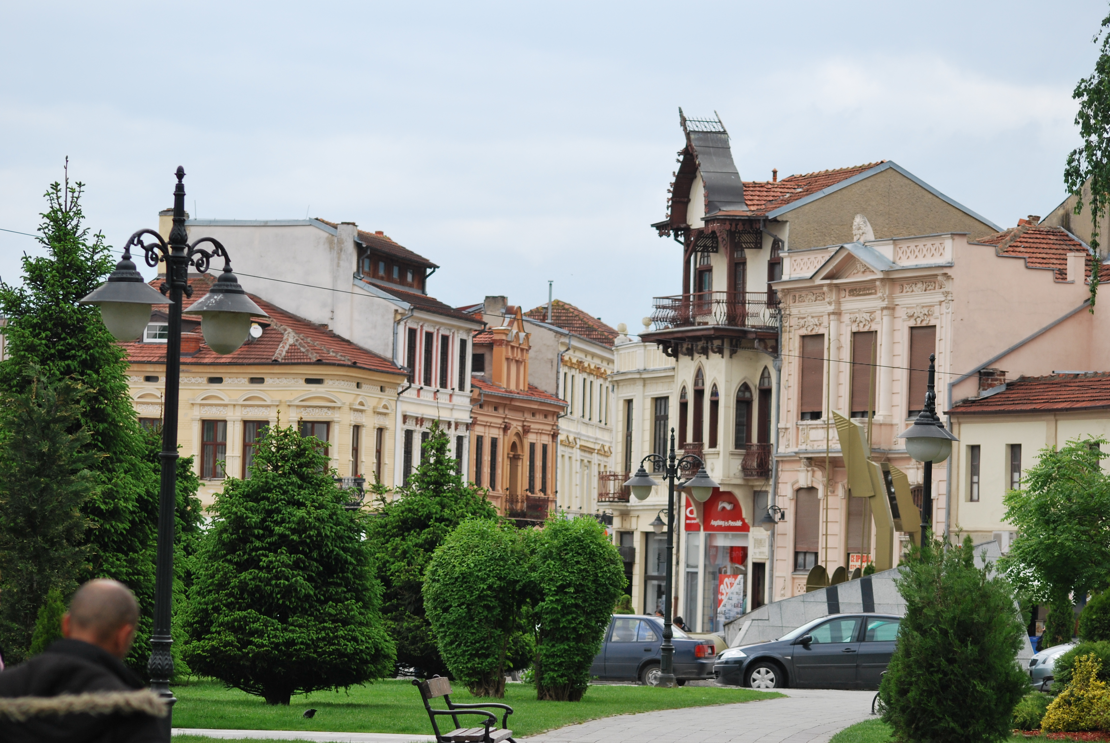 Bitola, Macedonia